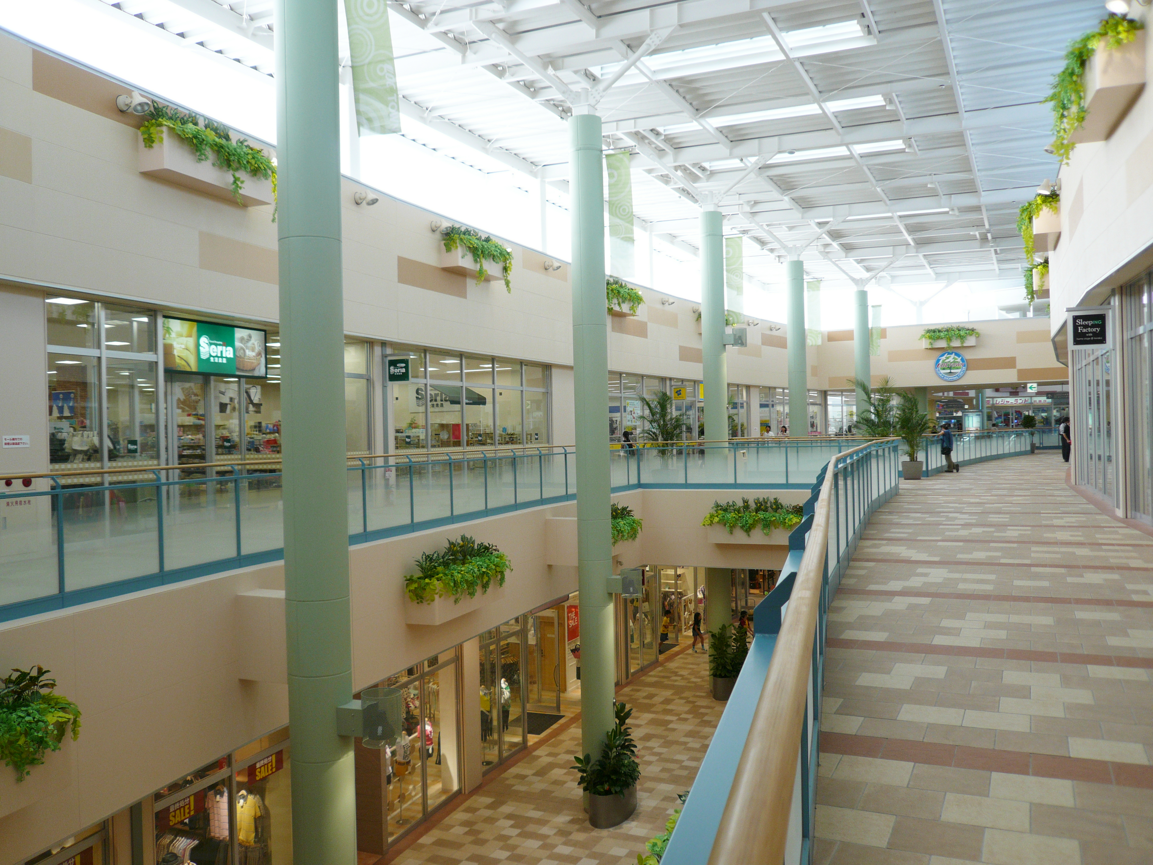 Open Air Mall in LOC TOWN Suzuka Shopping Center.